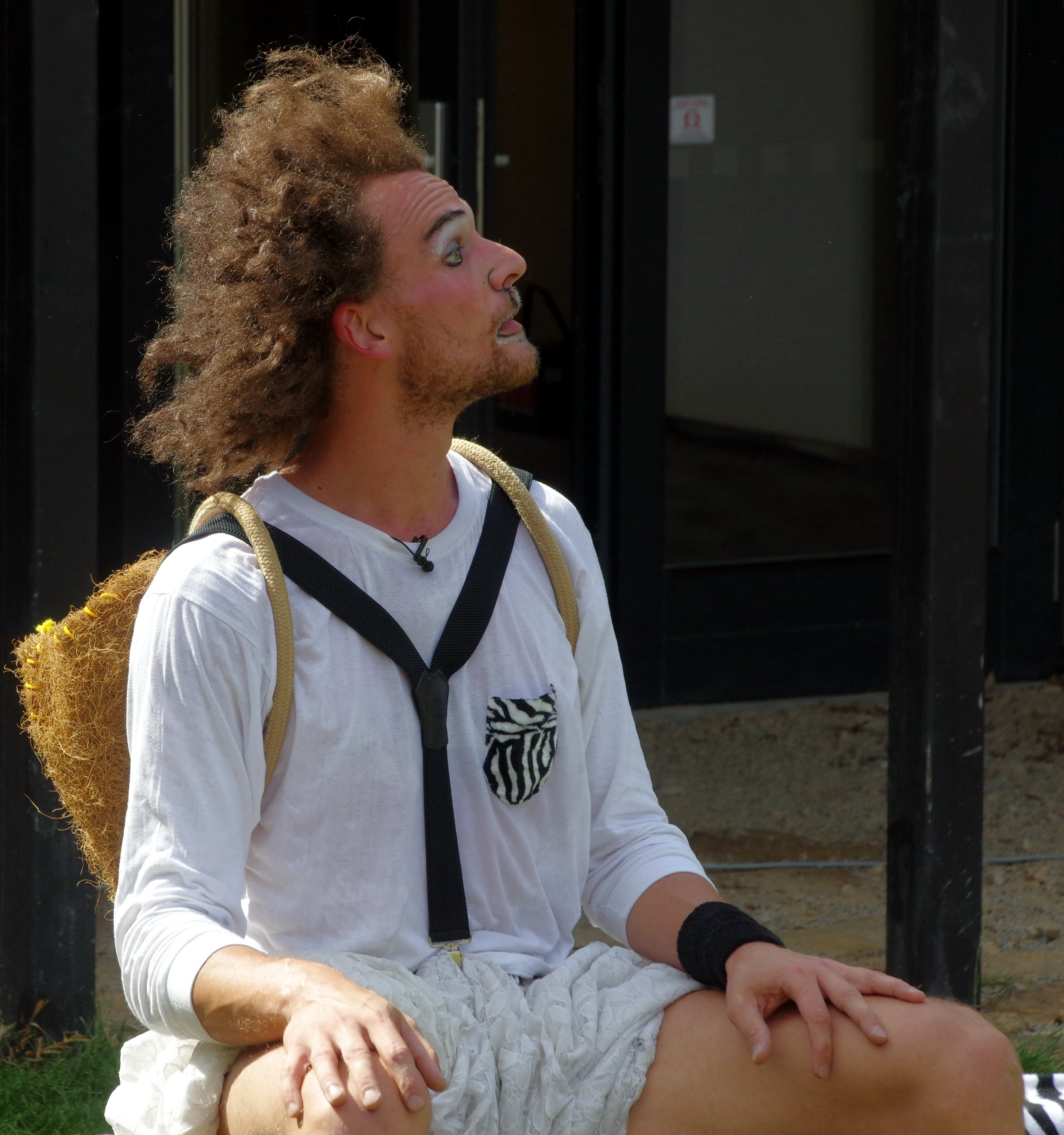 9.7.16 Malovice